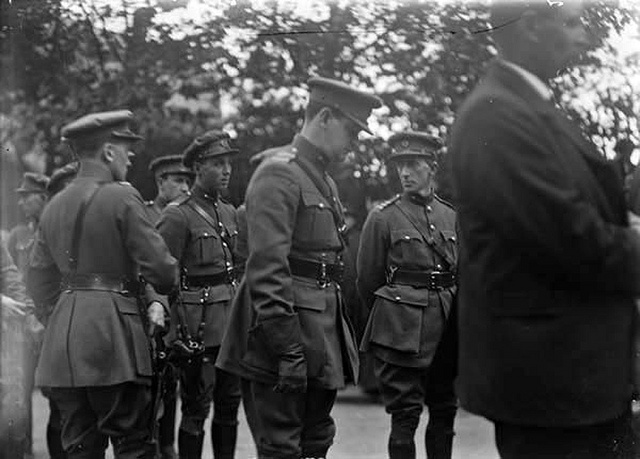 This shot of Michael Collins and Risteard Mulcahy was taken in Glasnevin Cemetery at the funeral of Arthur Griffith, who died on 12 August 1922.